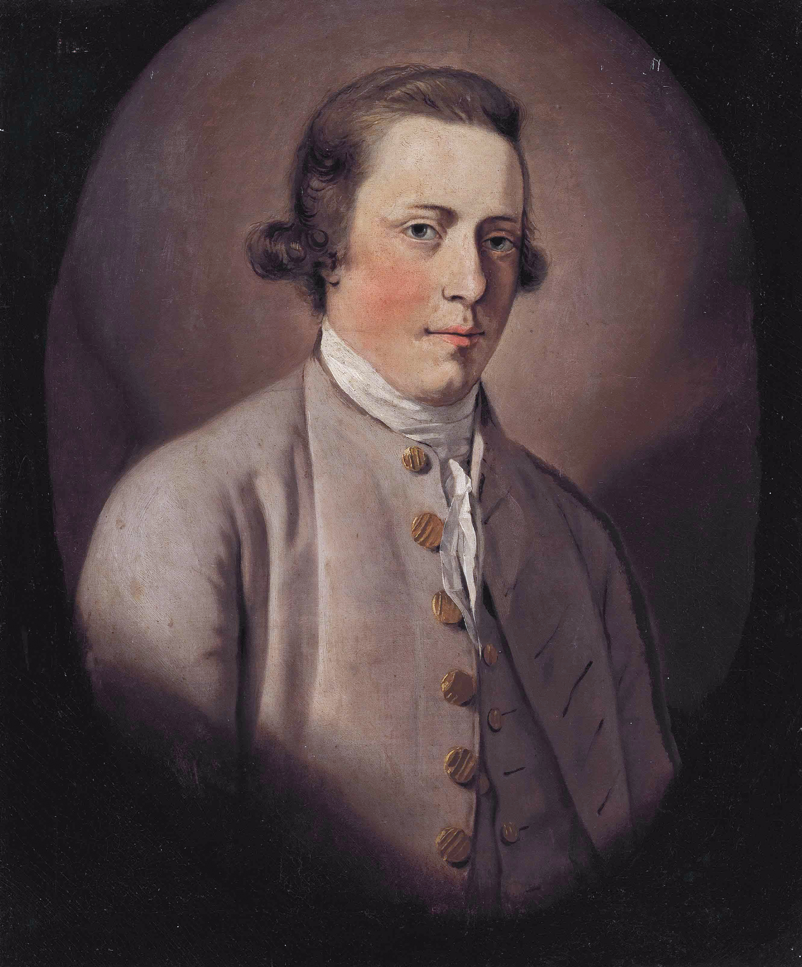 Henry Prittie, 1st Baron Dunalley (1743-1801) oil on canvas 71.1 x 59.6 cm